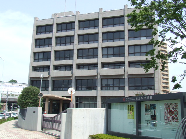 Science Council of Japan